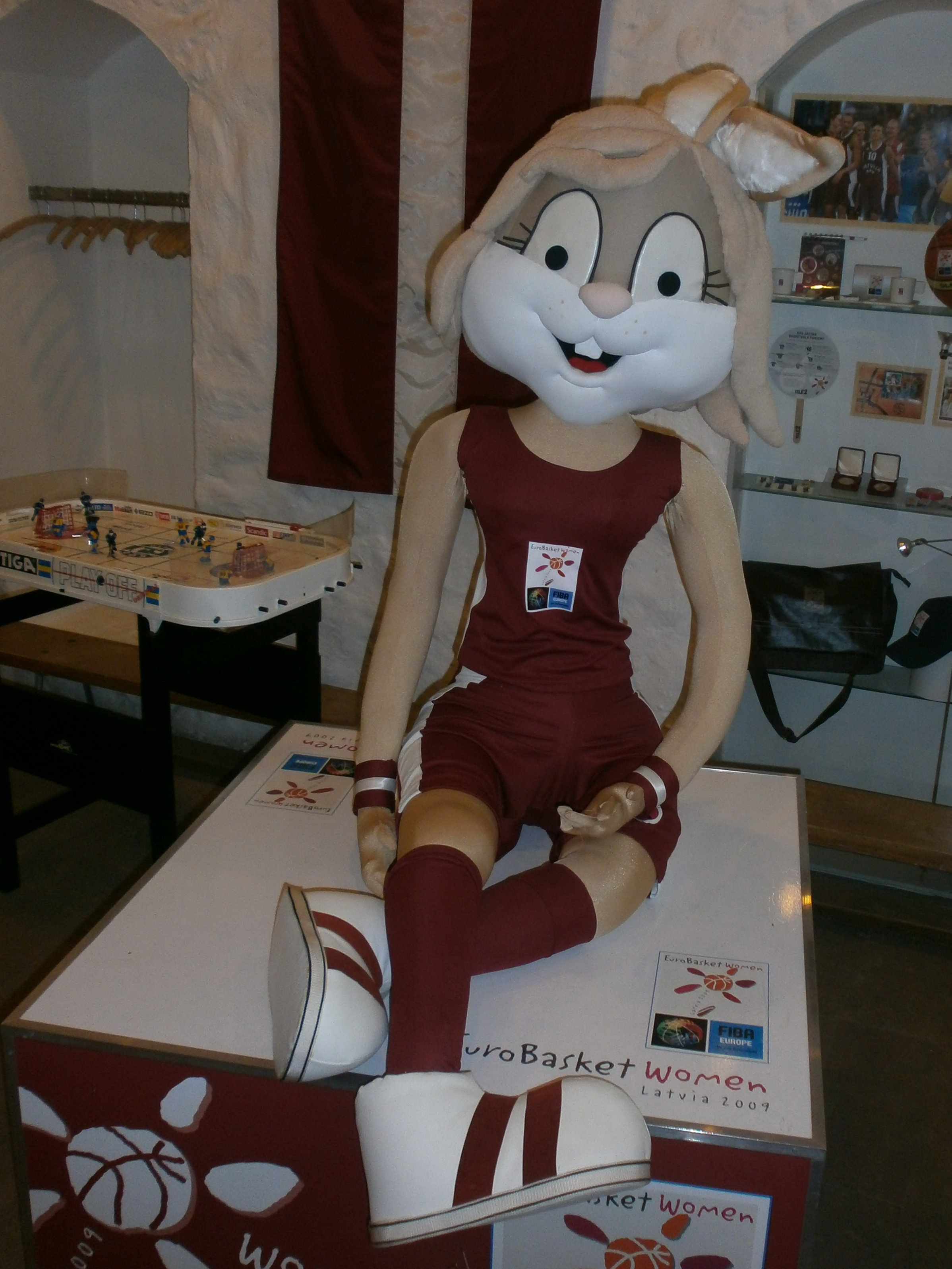 Eurobasket Women 2009 bunny